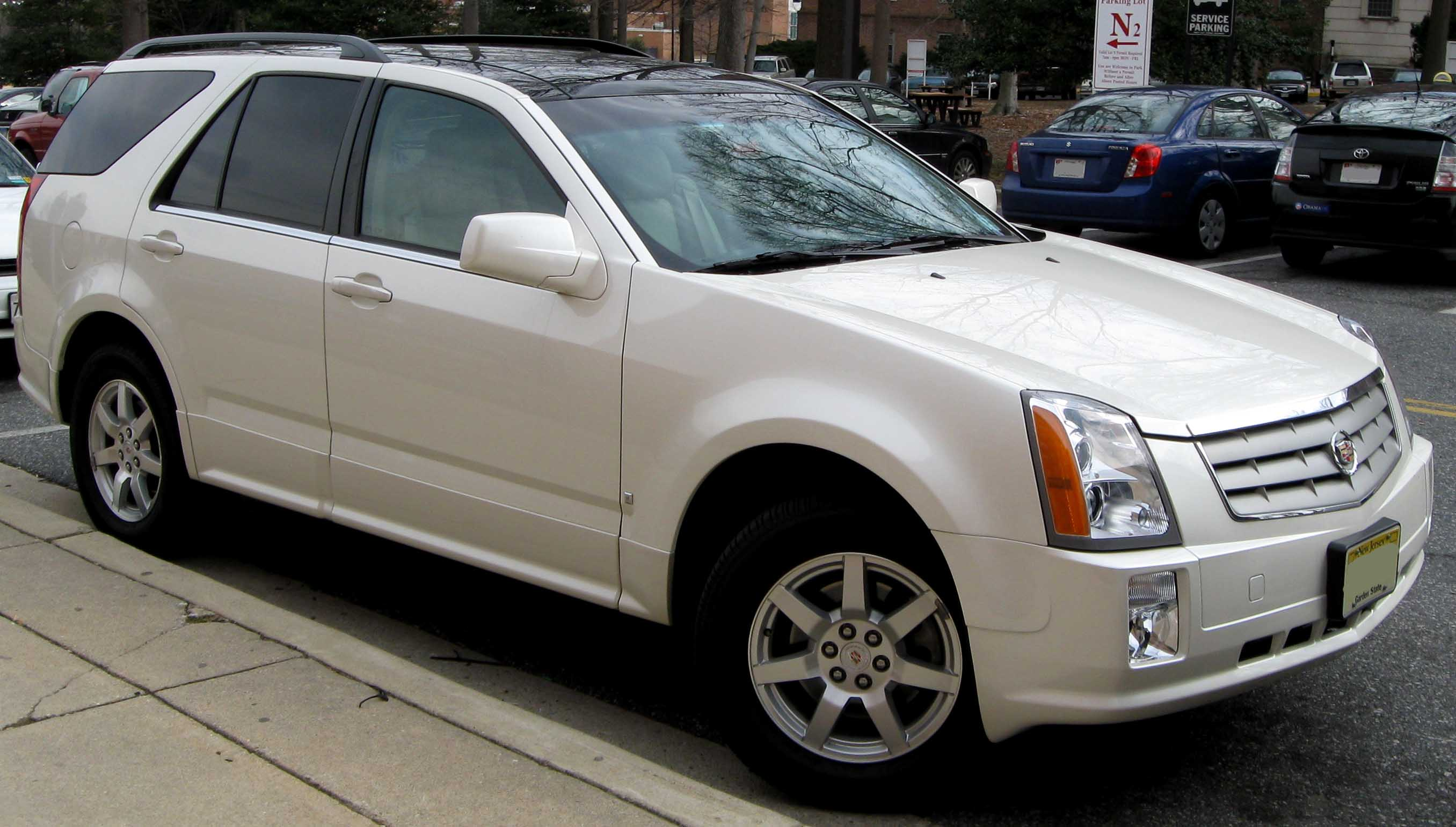 2004-2009 Cadillac SRX photographed in College Park, Maryland, USA.